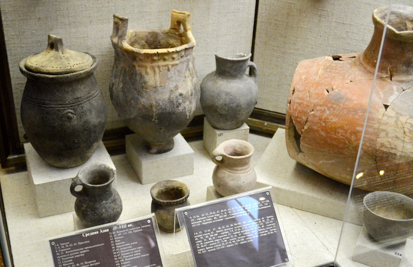 Clay vessels, 4-8 c. AD, Middle Asia, Altyn Asar.